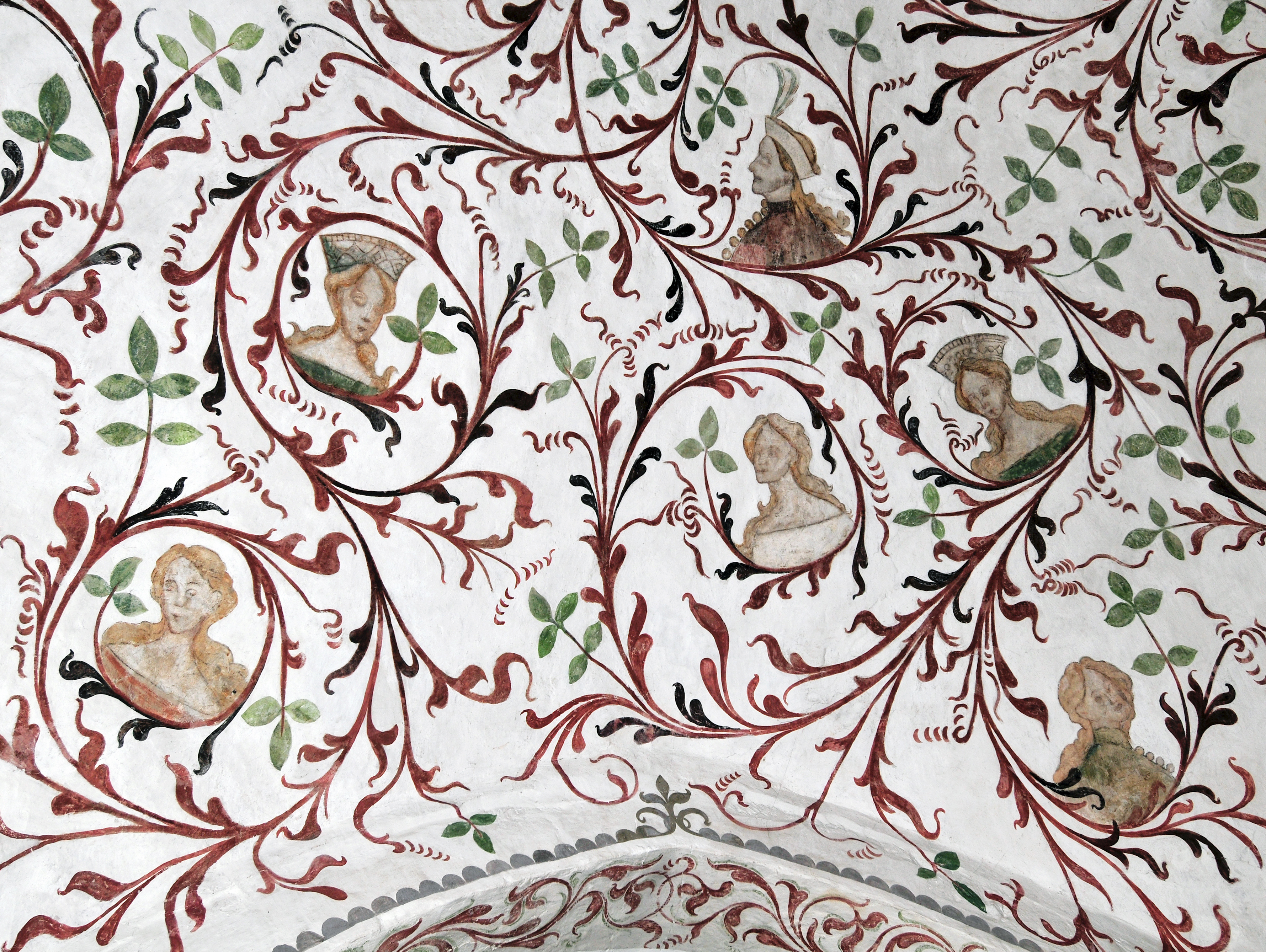 This is a partial view of the gothic Frescos dating back around the year 1400 in St. Agatha Church, in Leveste, Hanover district, Lower Saxony, Germany. The whole church is lined with such frescoes. At the time this church had also the function of a newspaper such as the German newspaper today "Bildzeitung". Who stood in church and looked up into the vault realized there people of high society. As a result, came into being for persons of high society the German name "die da oben". Later, the frescoes were painted over with white paint. In 1924, the frescoes were discovered and exposed. Today the frescoes for scientists, film directors, actors and costume designers have a great importance because it is the fashion of 1400 original show.